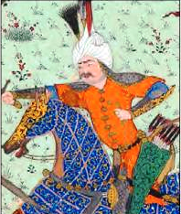 Painting of Hajir in The Shahnama of Shah Tahmasp